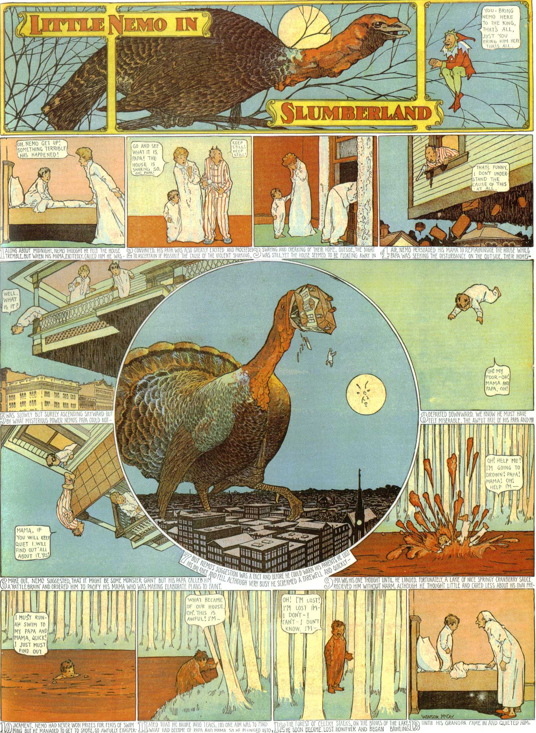 Little Nemo comic strip by Winsor McCay